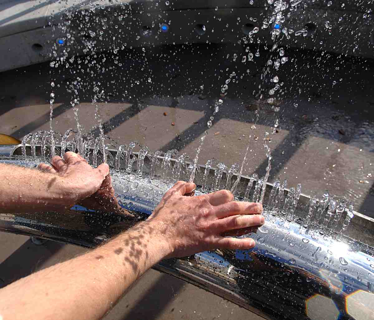 Hydraulophone as played by an experienced hydraulist who is also a composer for this instrument.